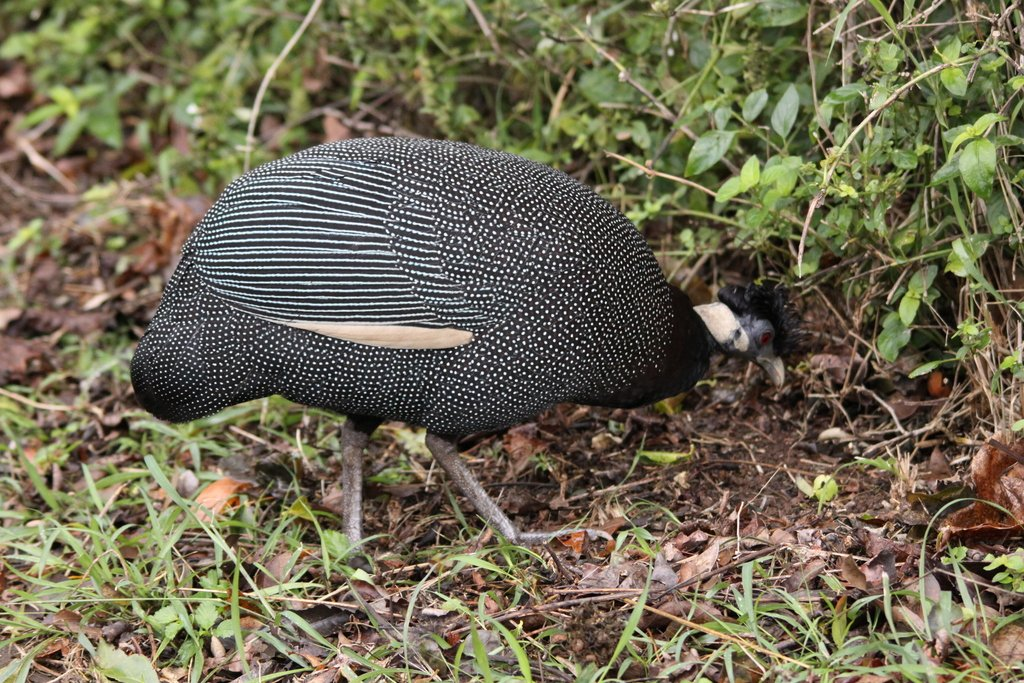 A Crested Guineafowl at Hluhluwe-Umfolozi Game Reserve, South Africa.